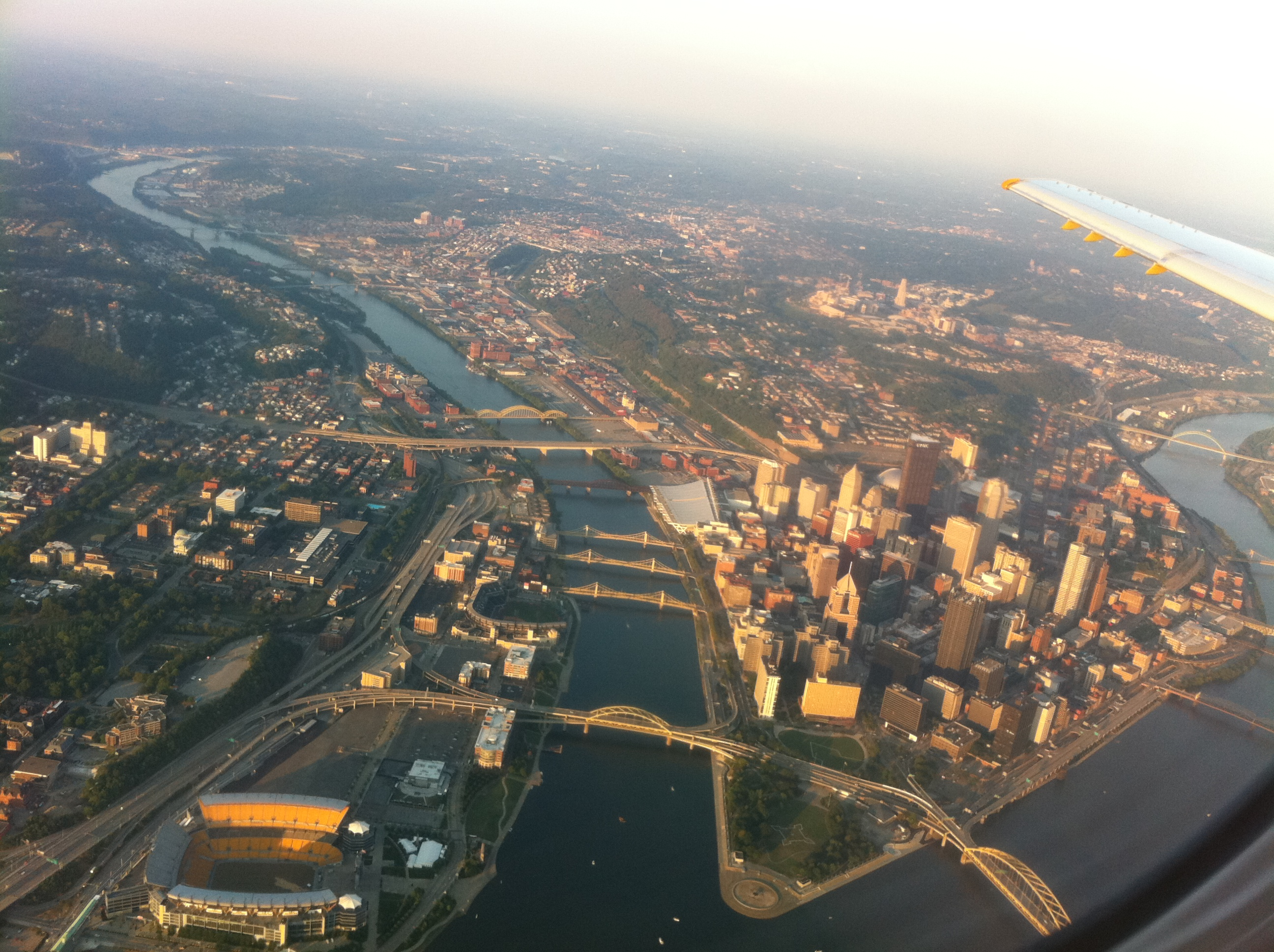 Taken 7/31/2011 from an EMB-145 aircraft flying from Raleigh, NC to Pittsburgh, PA